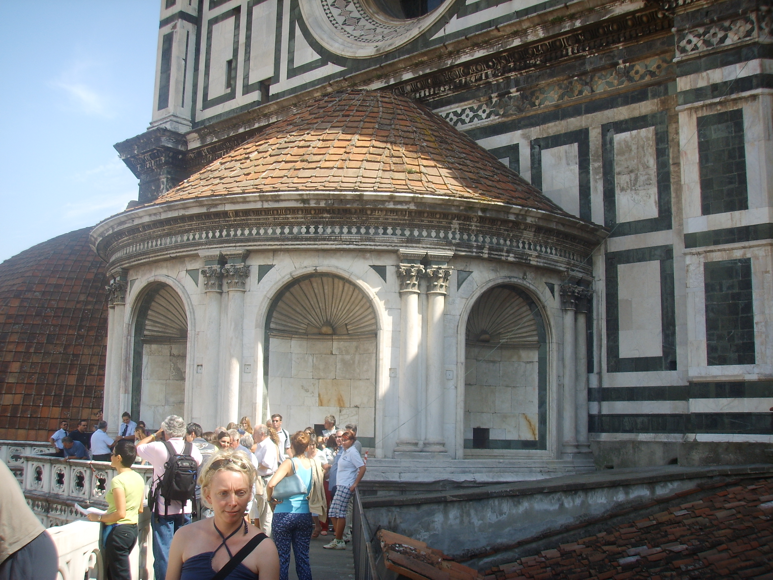 Santa maria del fiore, outside view in Florence, italy I live in Florence and it is a fantastic monument to see and if you want I can show you around in Florence and next you will pay me 50 euro.... don't forget to take money to pay me!!!